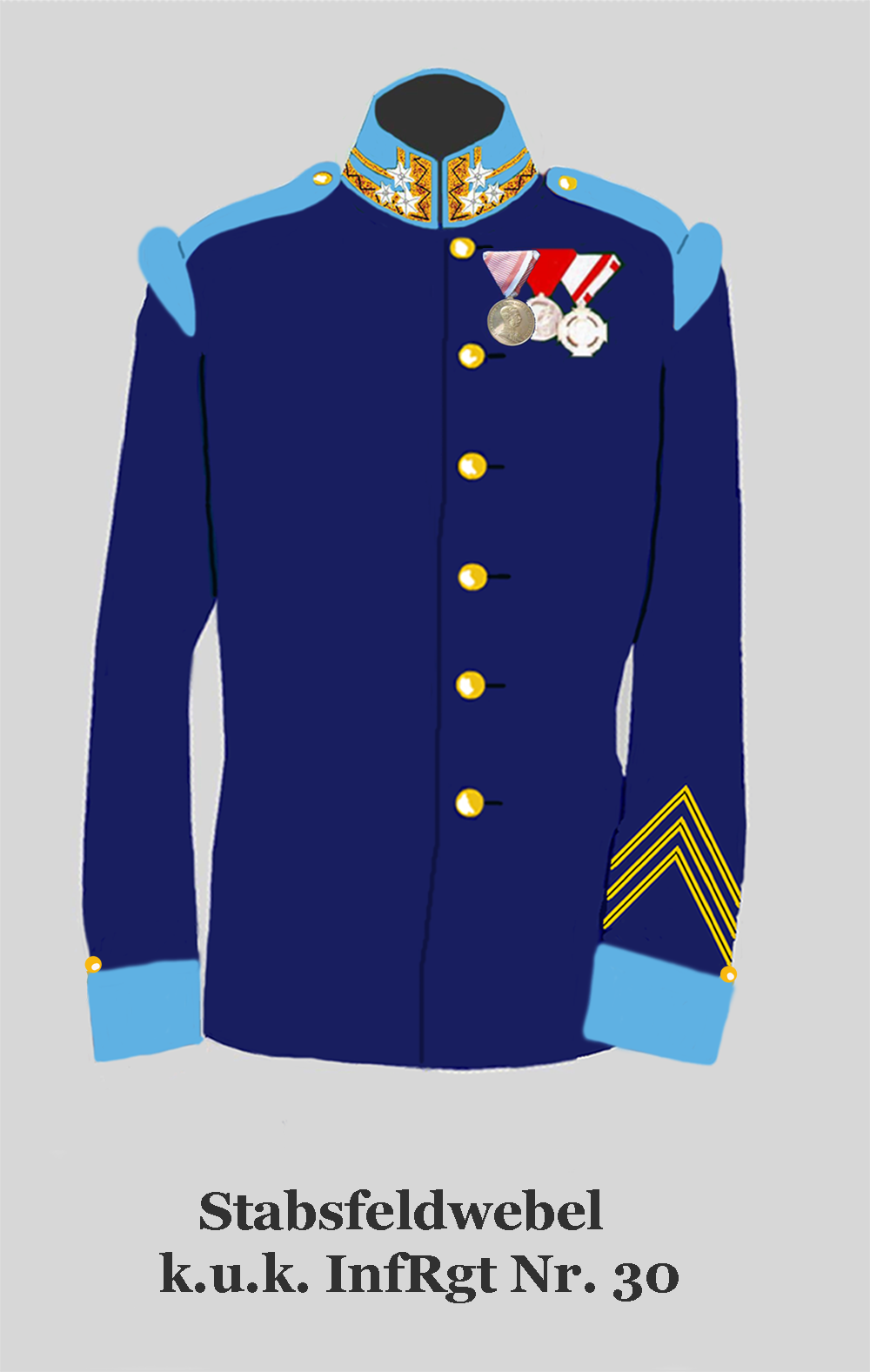 1st Sergeant of the k.u.k. german 30th Infantry Regiment (Collar pike-grey, buttons yellow - more than 9 years in Service)